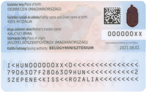 Hungarian ID